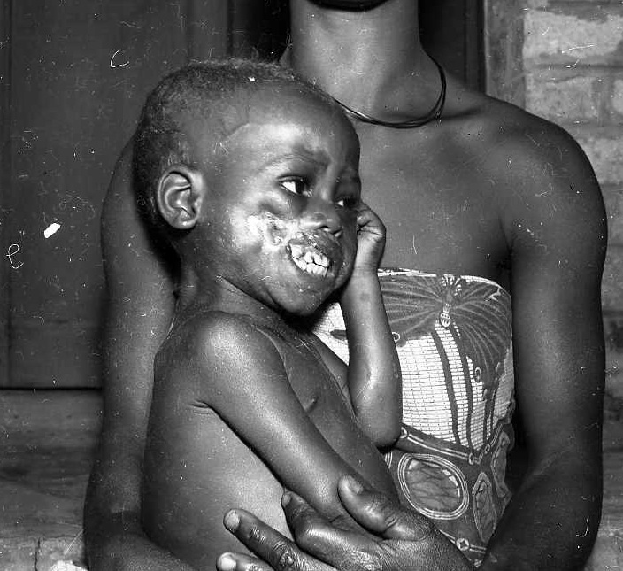 Onchocerciasis [aka river blindness], face of small child. Otis Historical Archives of “National Museum of Health & Medicine” (OTIS Archive 1)